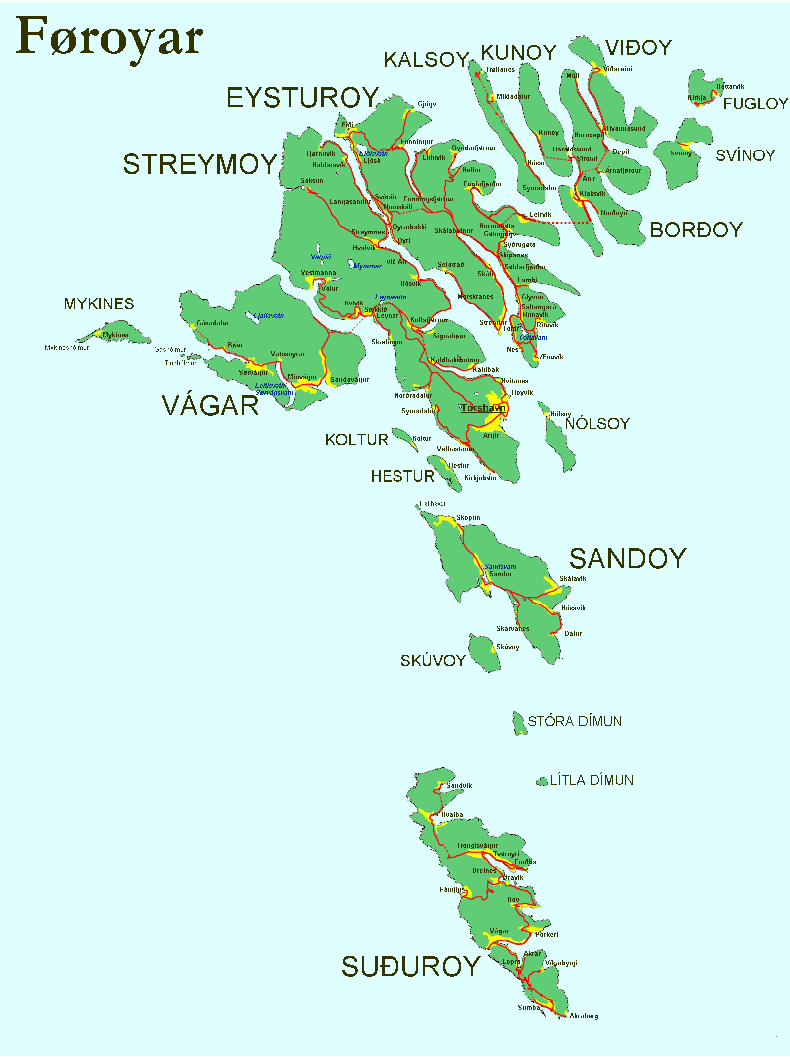 Map of the Faroe Islands (Føroyar) with streets and villages. Yellow fields = cultivated fields/inhabited area. Blue captions = major lakes. Dotted red lines = tunnels (note, that the tunnel between Eysturoy and Borðoy opens in August 2006).